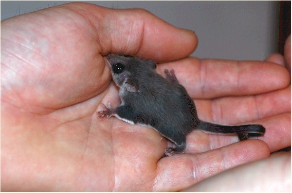 Feathertail glider rescued from a bucket